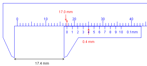 Caliper measuring 17,4 mm